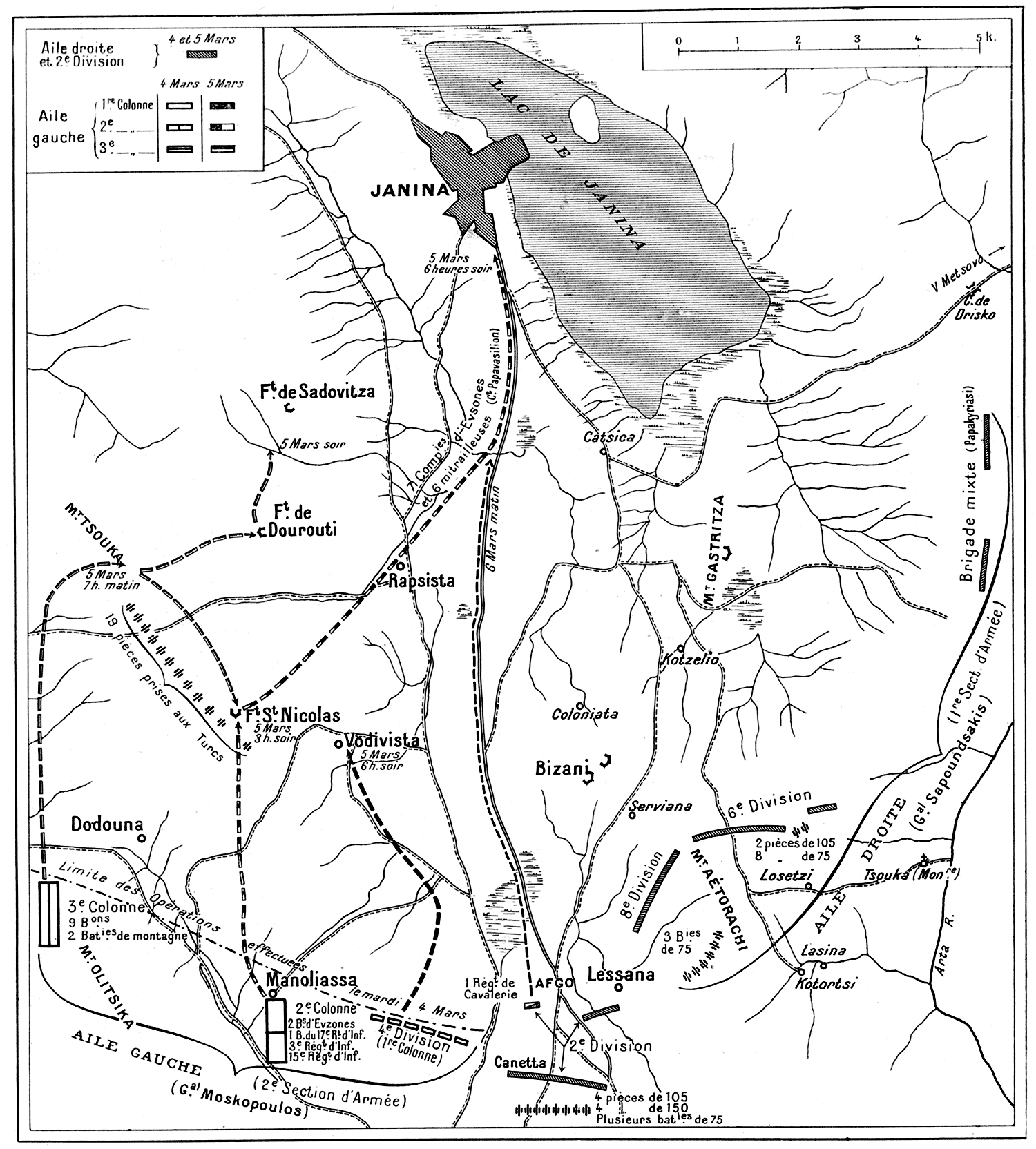 Sketch of the flanking manoeuvre of the Greek left wing during the Battle of Bizani that led to the capture of Ioannina